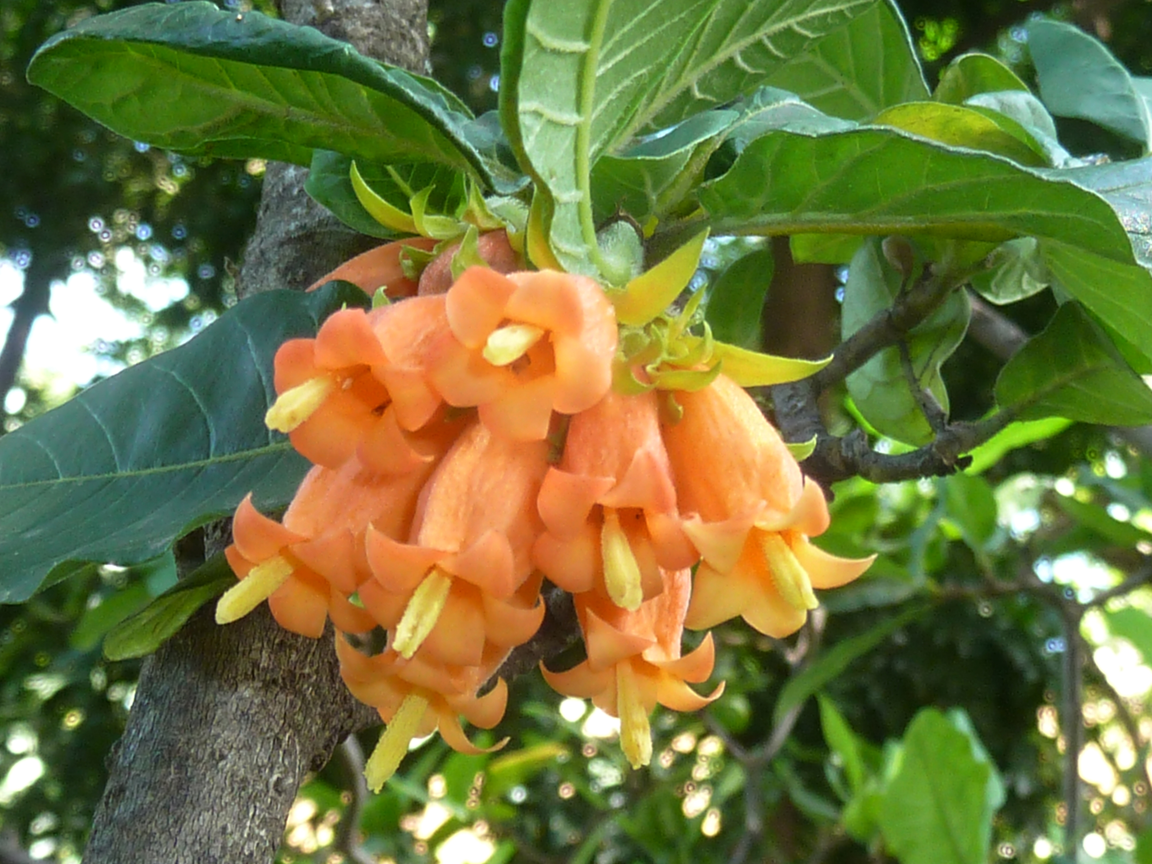 Inflorescence of a Wild pomegranate in Manie van der Schijff Botanical Garden, University of Pretoria.